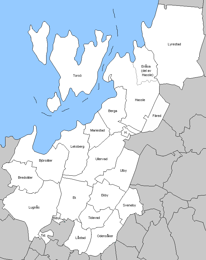 Parishes in Mariestad's municipality